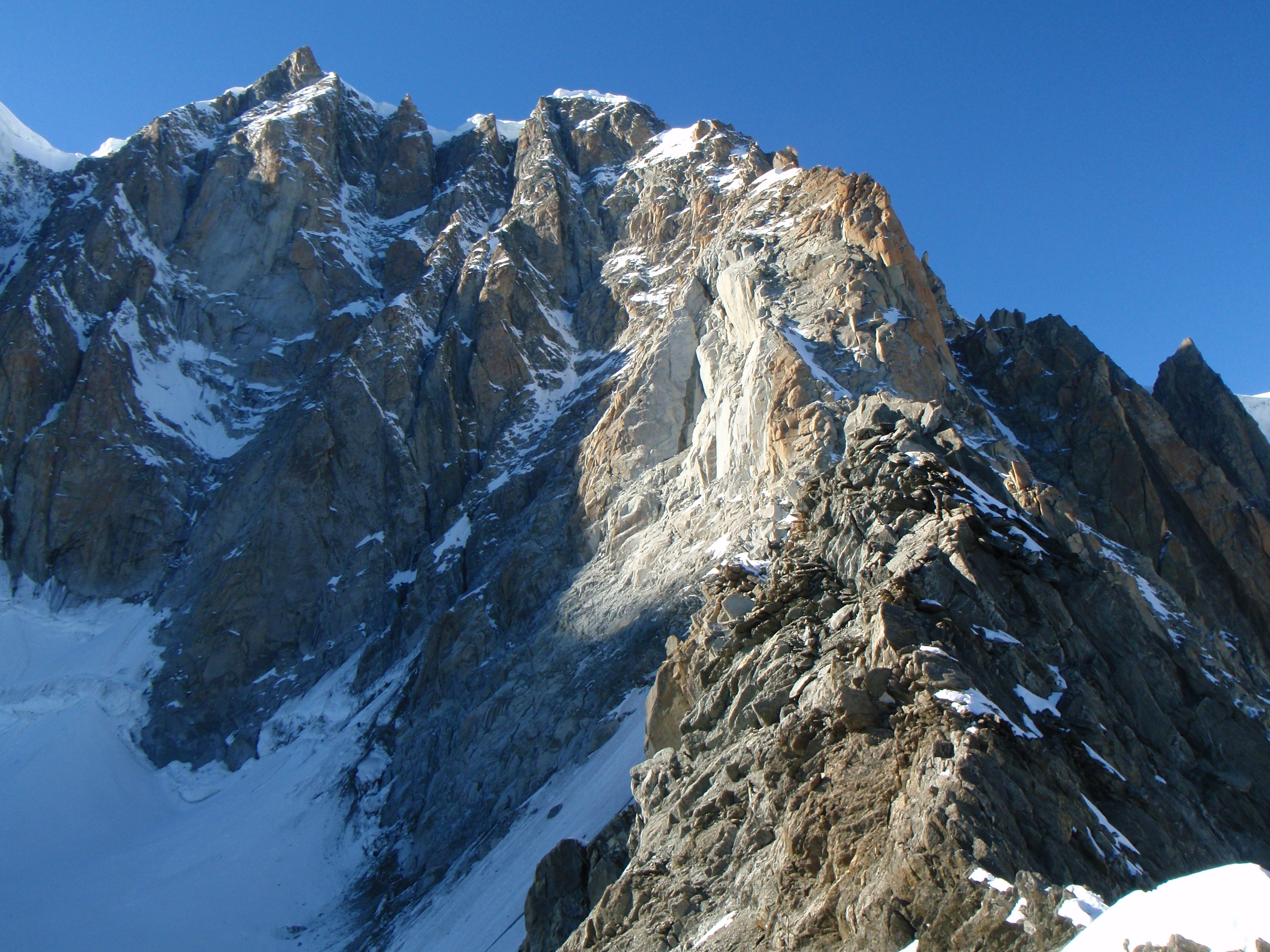 The prominent east ridge of Mont Maudit, the second highest mountain in French Alps after Mont Blanc. The route Arête Küffner starts at this Bivourc de la Forche, merging up to the summit ridge, which is the skyline in this photo. It is also called Frontier Ridge, Tour-Ronde Ridge, Boarder Ridge, or Arête de la Brenva. Long and sustained mixed (mainly on rock) climbing at high altitude around 4000 metres at Difficile.